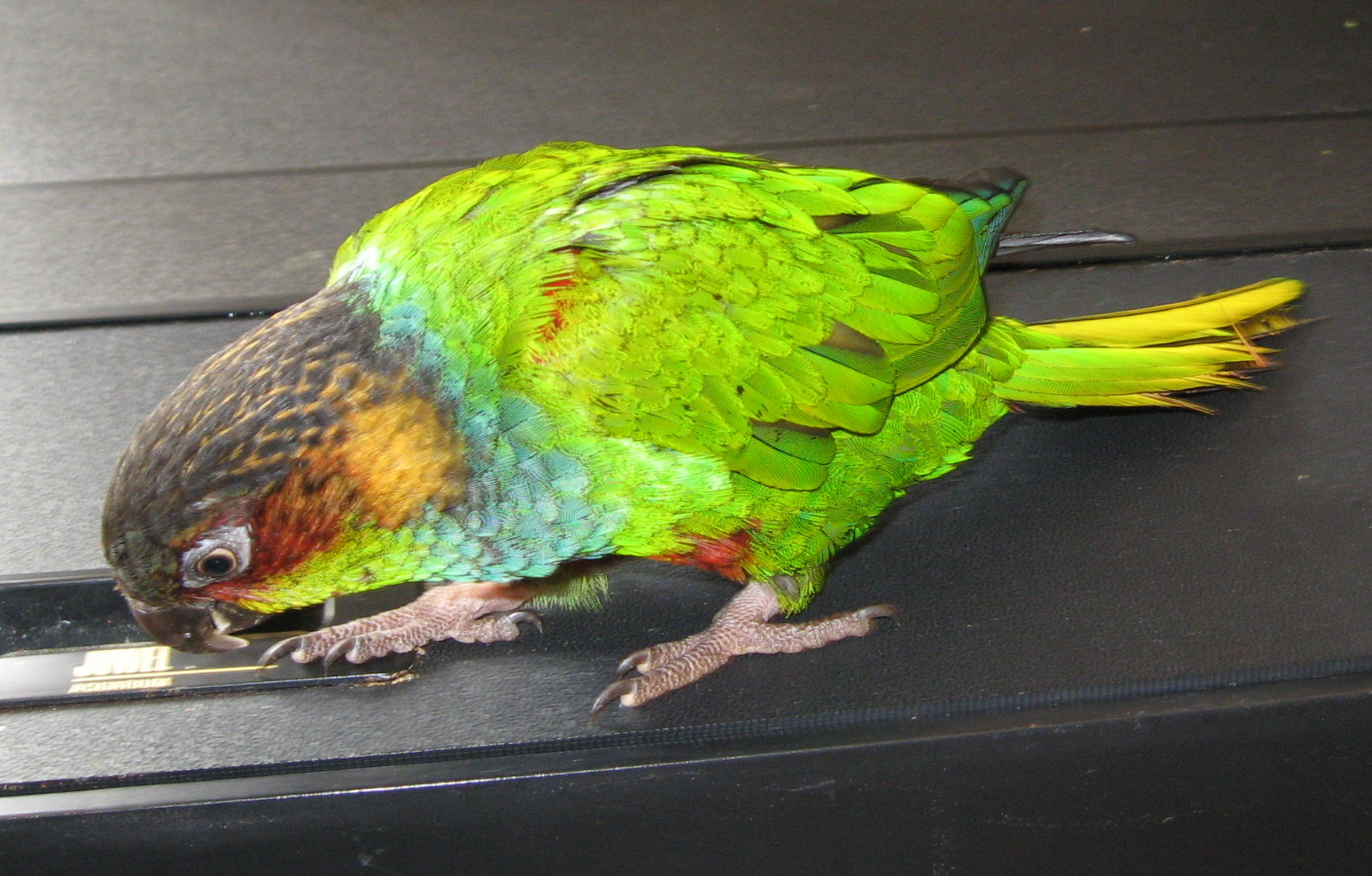 Blue-chested Parakeet, (Pyrrhura cruentata) also known as Blue-throated Parakeet or Blue-throated Conure. Pet parrot.